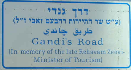 Route 90, Jordan Valley section.